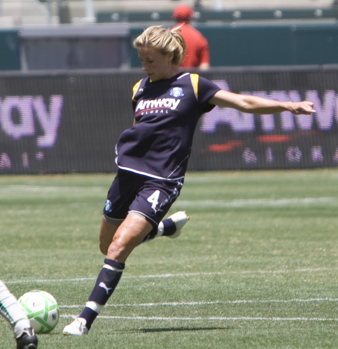 WPS 2009-July-08